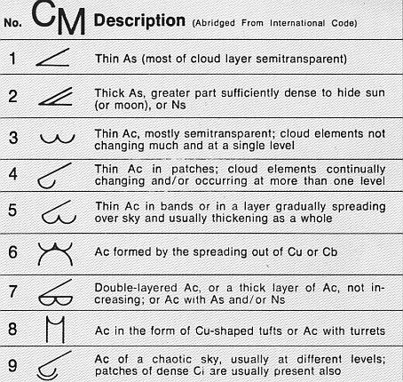 Mid level cloud symbols for use on station models